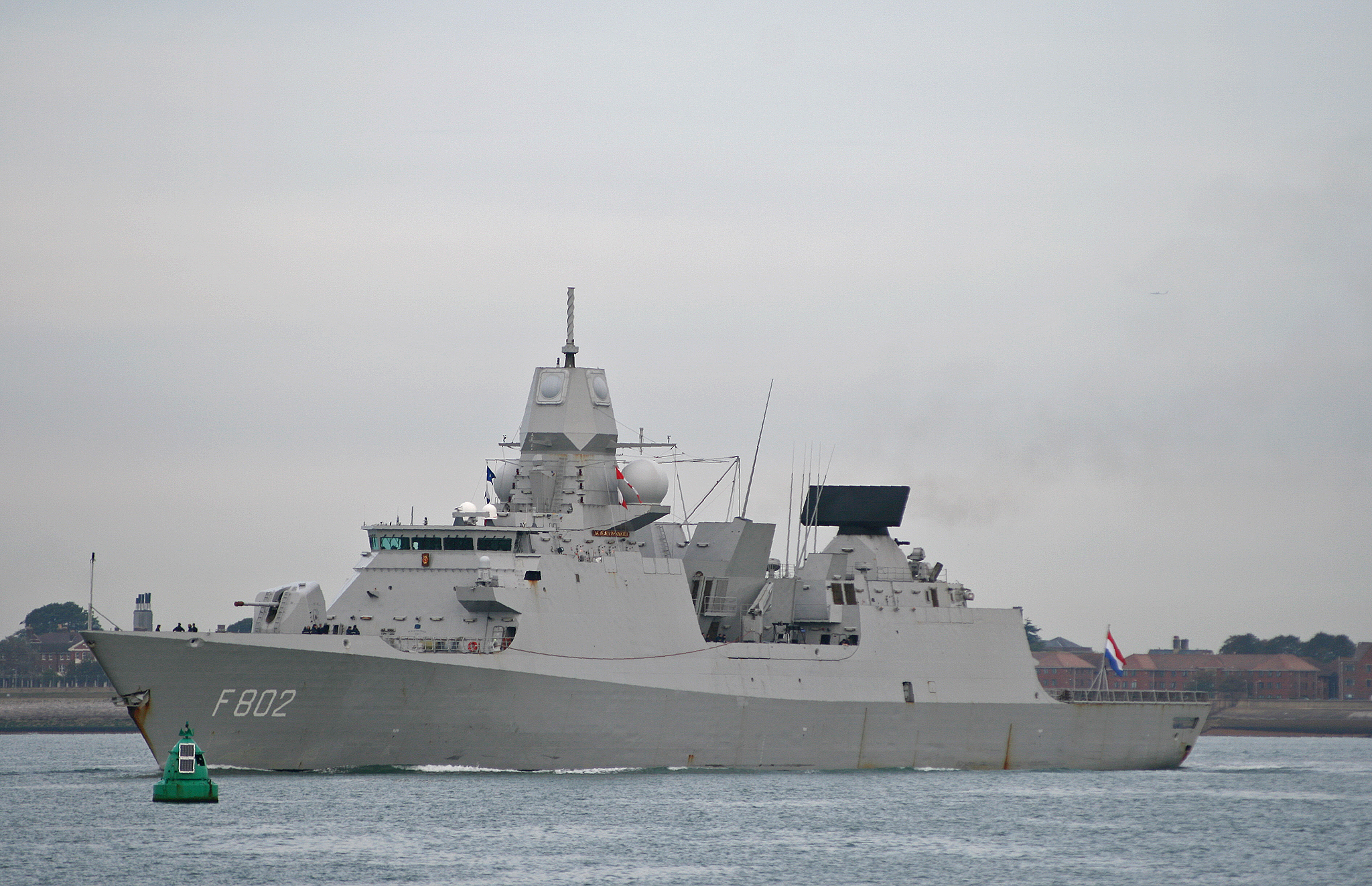 HNLMS De Zeven Provincien, a stealth design of frigate and command ship of the Dutch Navy, outward bound from Portsmouth Naval Base, UK, 21st September 2009. Image uploaded by me George Hutchinson using a photograph supplied by Brian Burnell. The photograph should be attributed to Brian Burnell.